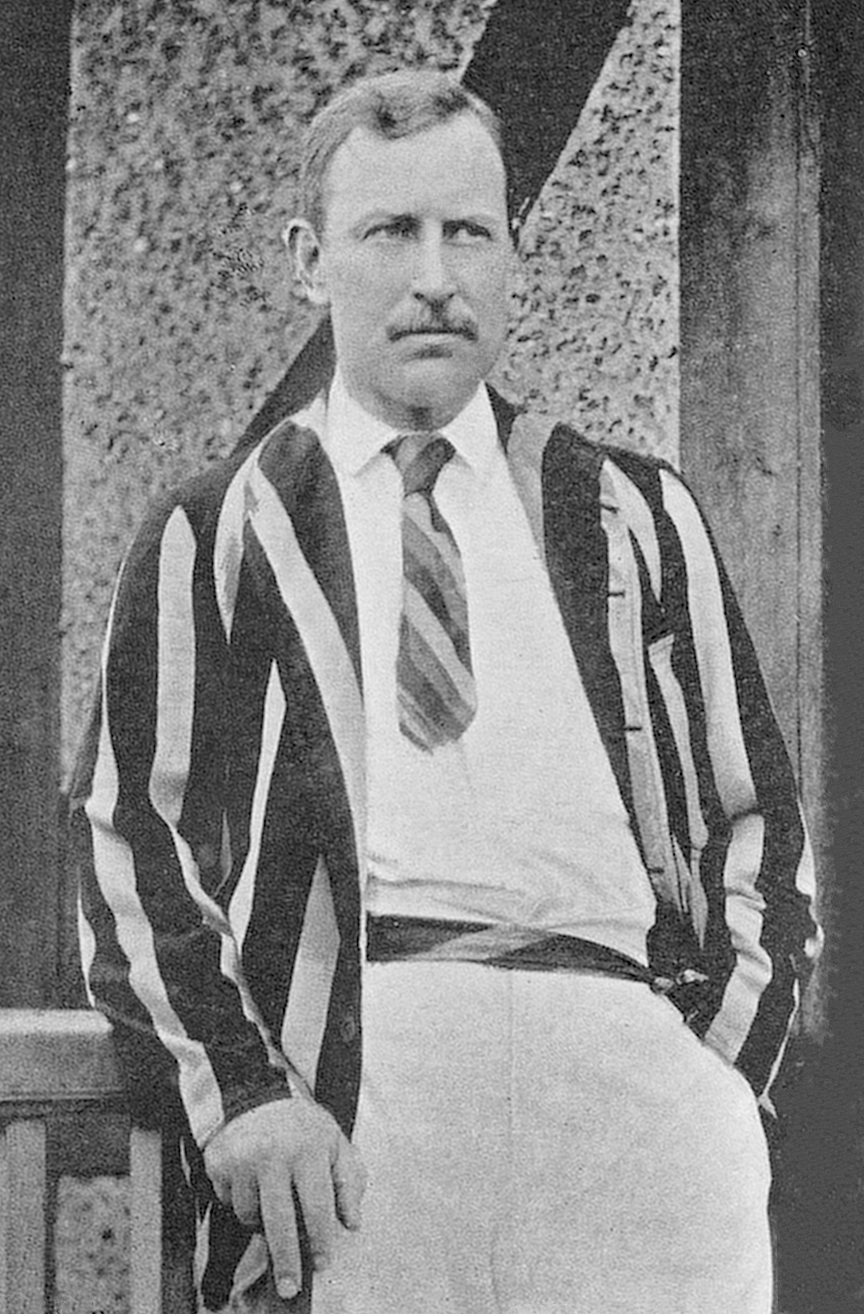 Scan of cricketer A P Lucas